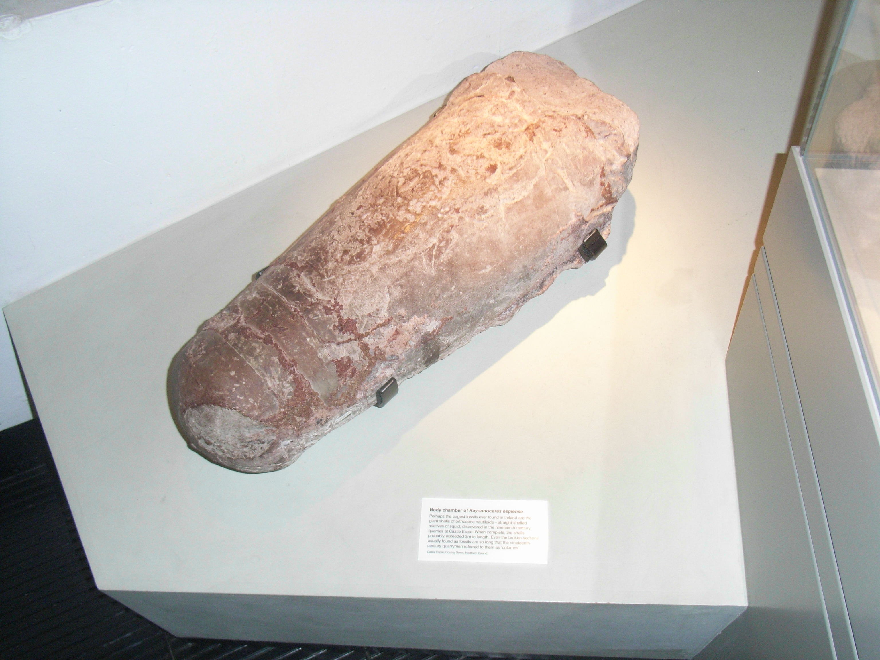 Rayonnoceras Espeyense Nautiloid. Rayonnoceras lived 325 million years ago during the Carboniferous (late Mississippian) It resembles earlier actinocerids but is now though to belong to the Pseudorthocerida Rayonnoceras was a specialized nautiloid with a long straight, sometimes large and nearly cylindrical shell